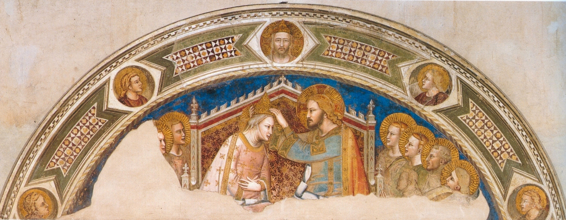 Maso_di_Banco1335-40_Fresco_from_Santa_Croce,_Florence.